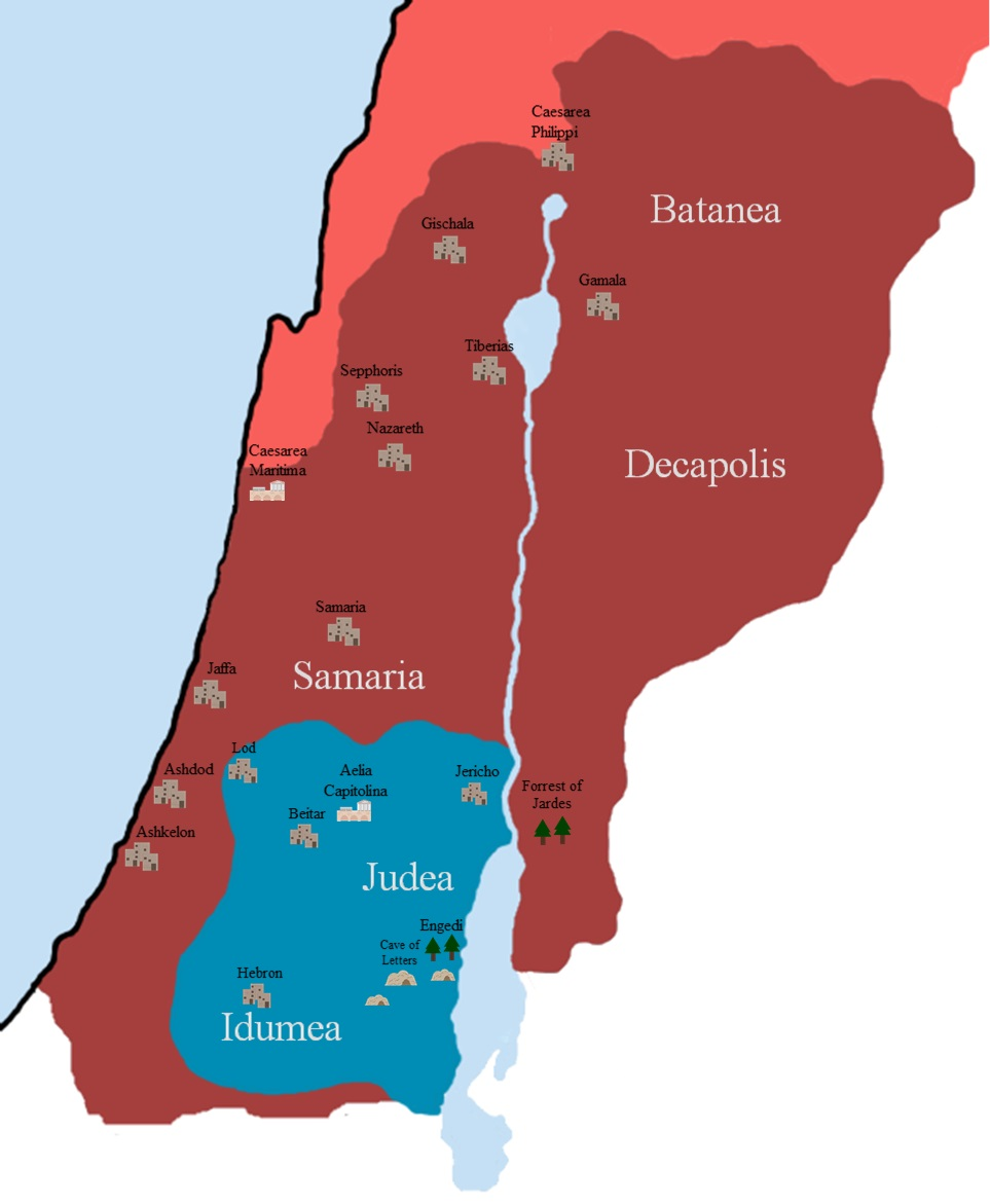 Map of the State of Israel under the rule of Shimon bar Kokhba as Prince/ President of Israel.